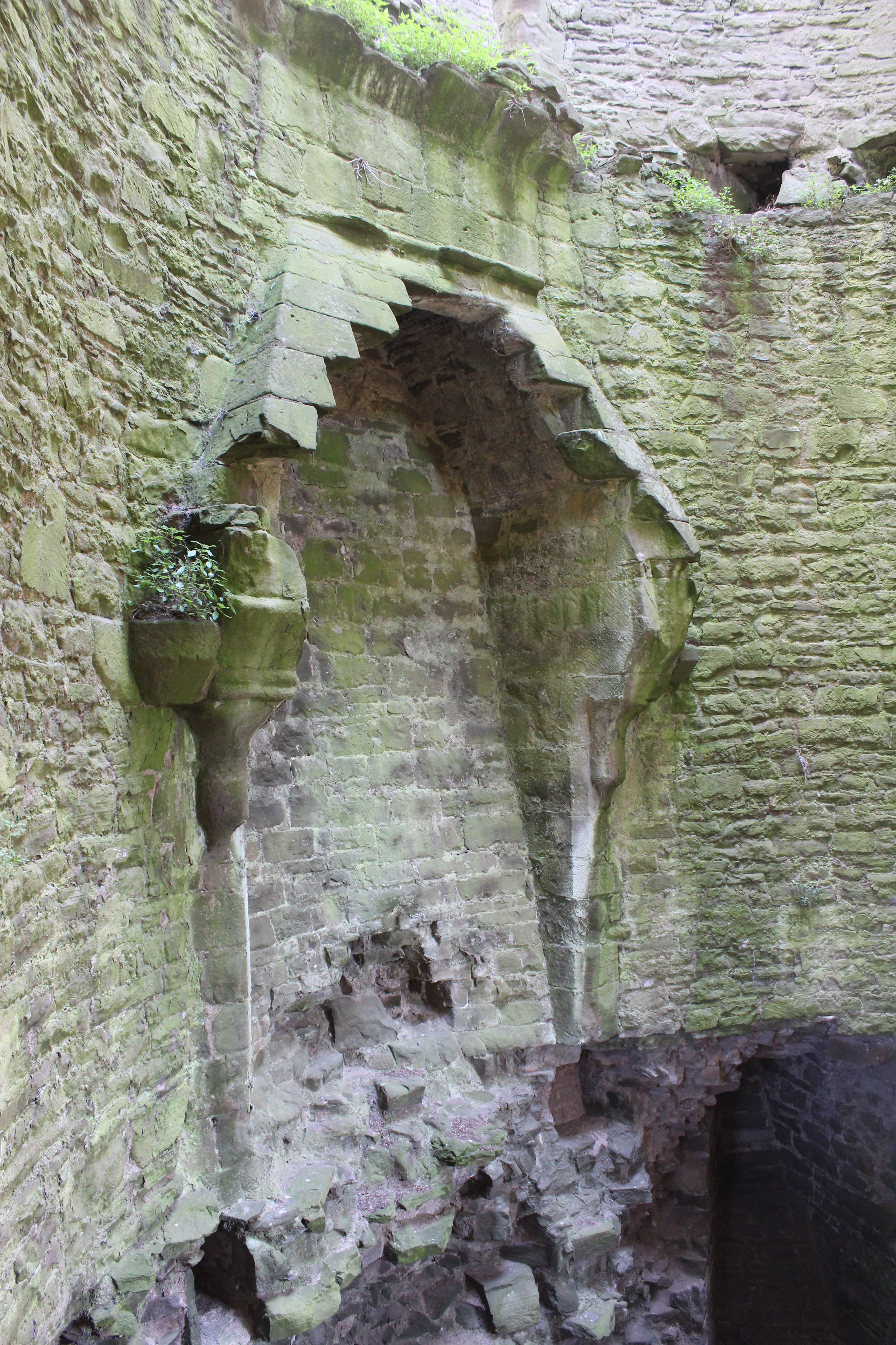 Fireplace on the first floor of the Tretower Castle tower. The tower, circular in shape, was built the 13th century within the existing 12th century shell keep to provide accommodation for the Picard family, hence the ornate Romanesque architectural style.